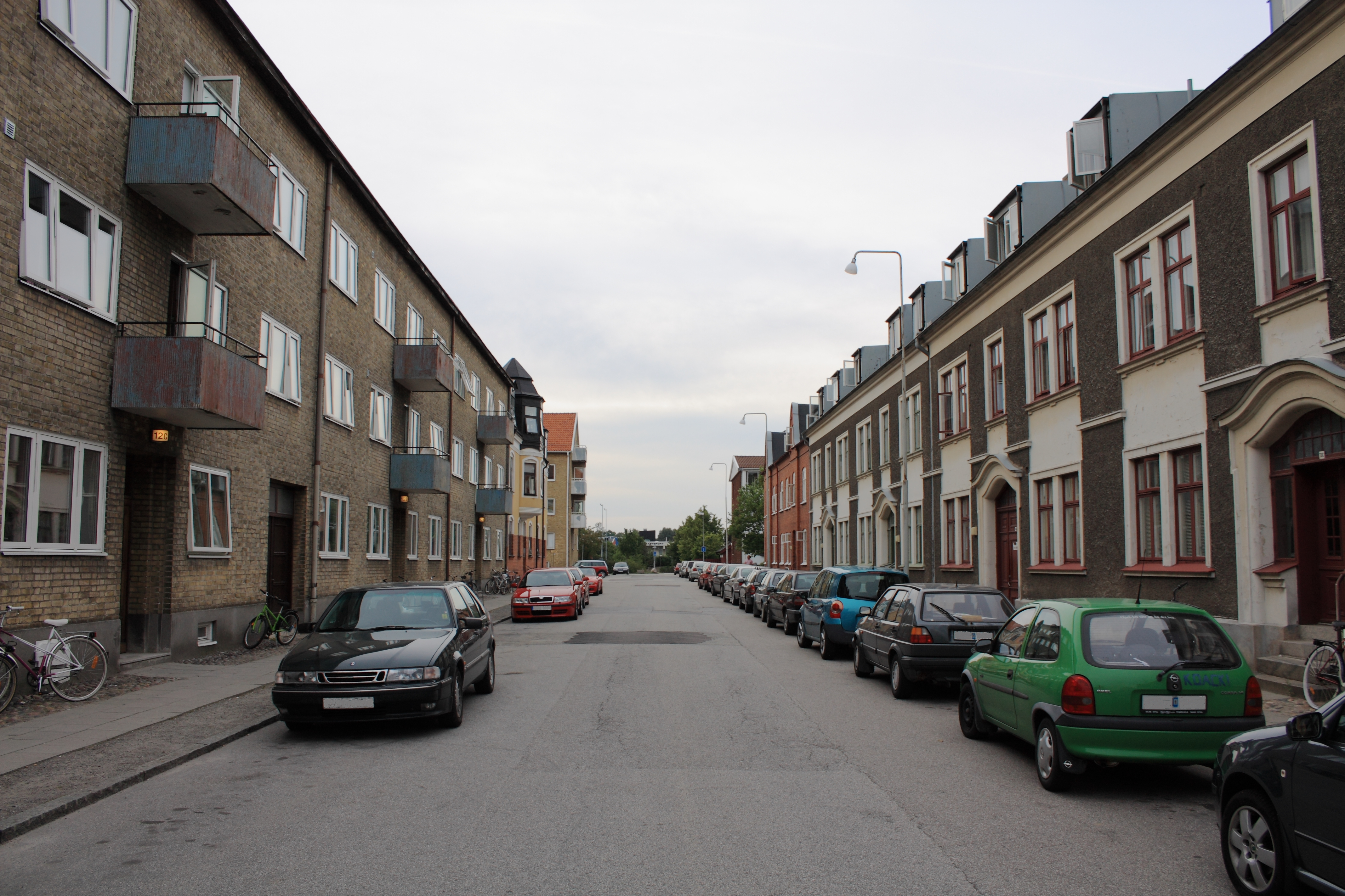 Mariagatan in Ystad, Sweden. A fictional character, inspector Kurt Wallander, created by Swedish crime writer Henning Mankell, is said to live here.